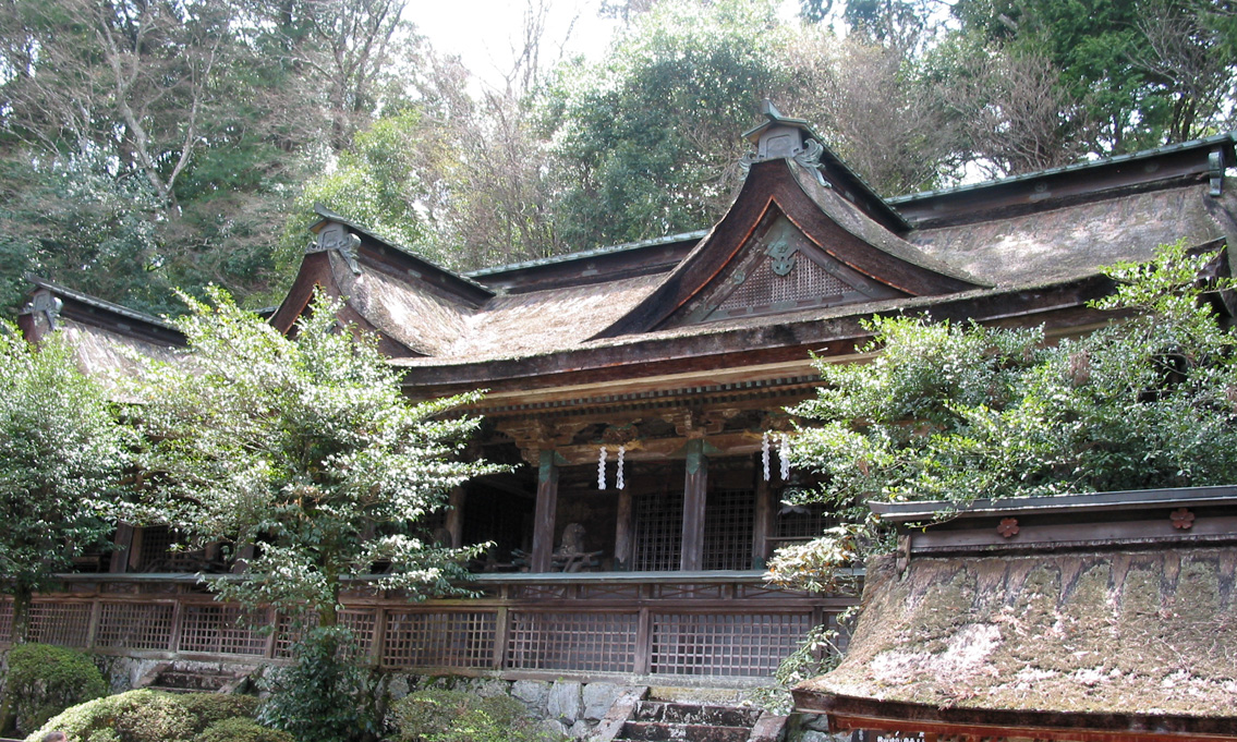 Honden of the Yoshino-Mikumari Shrine, built in the early Edo period, had Japanese important cultural property status. 吉野水分神社 本殿（重要文化財 江戸前期） 奈良県吉野郡吉野町子守にて投稿者撮影